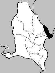 Location of Alfornelos parish in Amadora municipality. Map created by Brian Boru in December 2005.